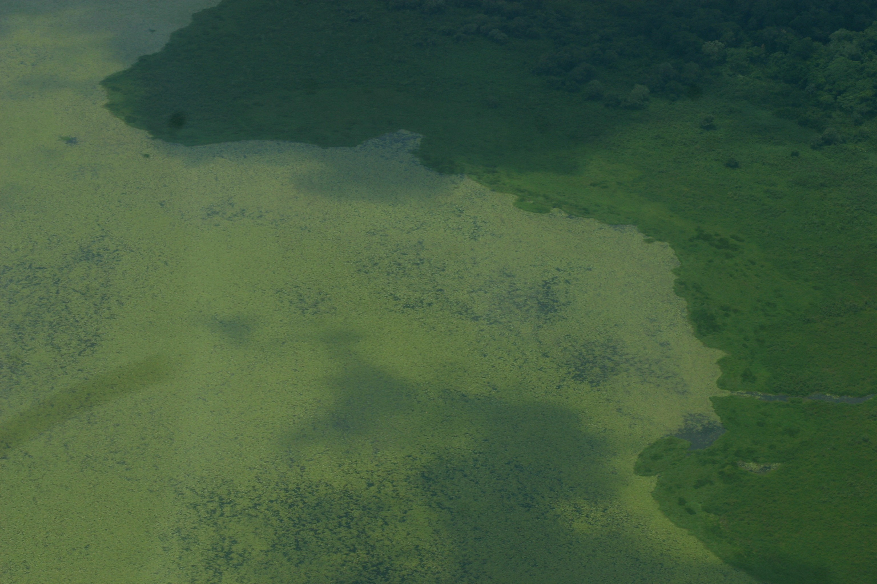 Vista Aérea Reserva Científica, Ecológica y Arqueológica Kenneth Lee